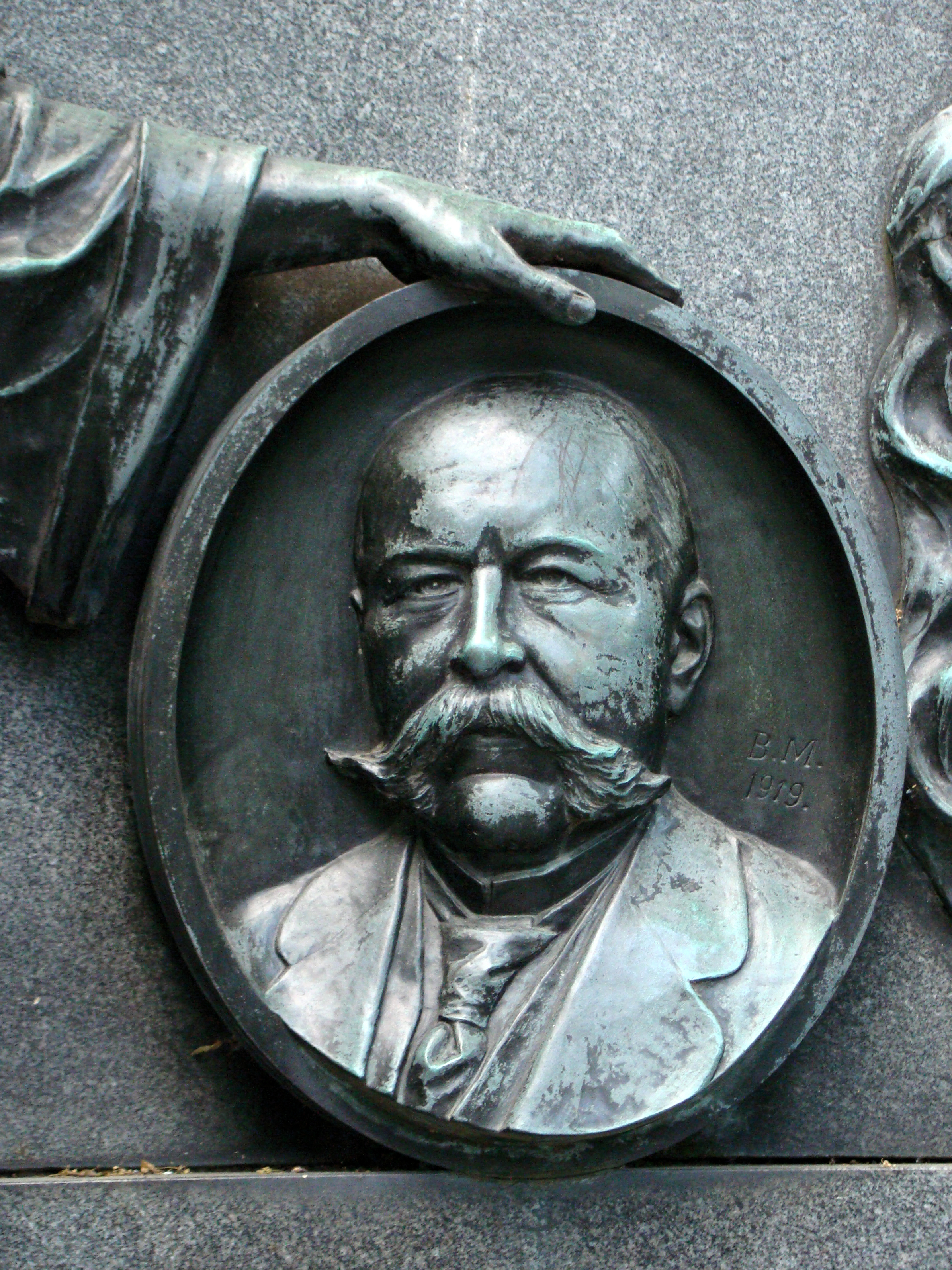 Juliusz Vetter memorial-tomb - Evangelical-Augsburg Cemetery, Lublin, Lipowa street